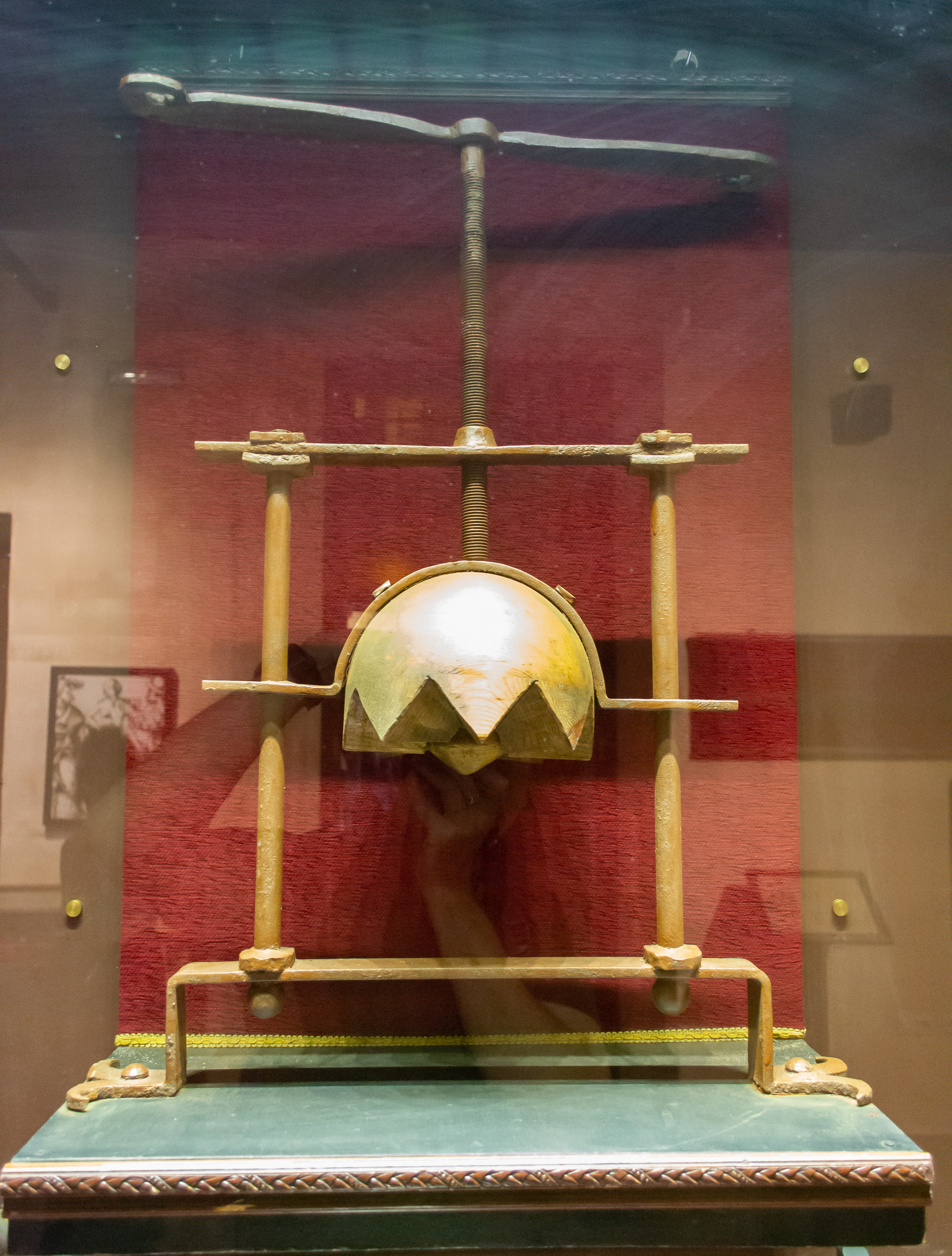 Head crusher. Ancient instrument of torture. Inquisition Exhibition in the Palacio de los Olvidados of Granada.